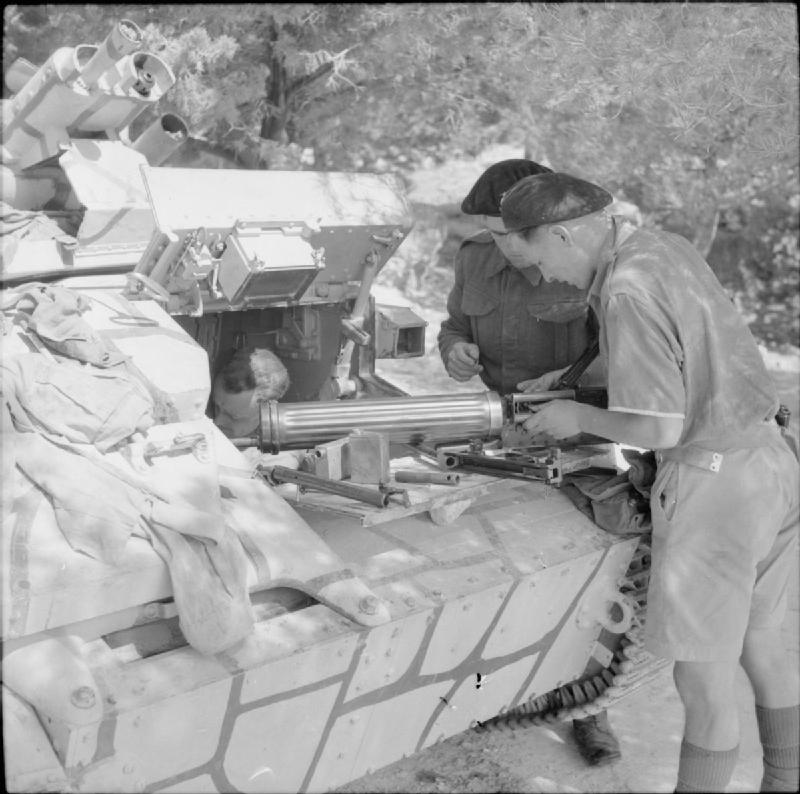 The British Army on Malta 1942 The crew work on the Vickers gun of a Light Tank Mk VI during an exercise in the Maltese countryside, 24 May 1942.